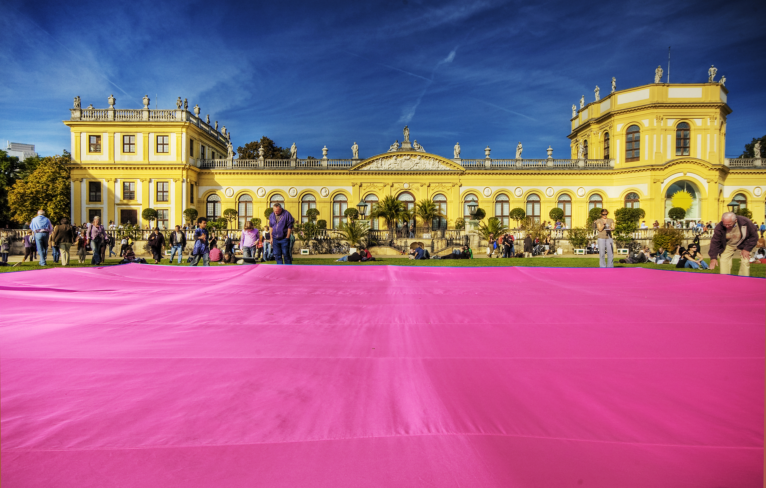 Tanaka Atsuko "Tokyo Work" 1955 reconstruction 2007 rayon; 1000x1000cm Klick here for a large view!